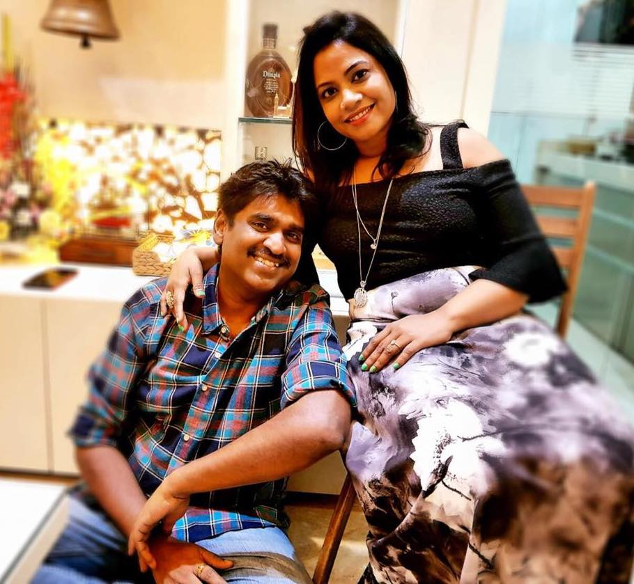 JP and his wife